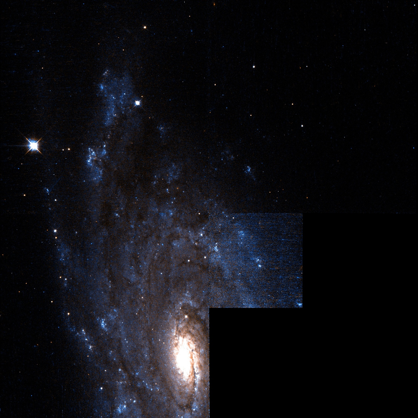 NGC 6118 galaxy by Hubble space telescope